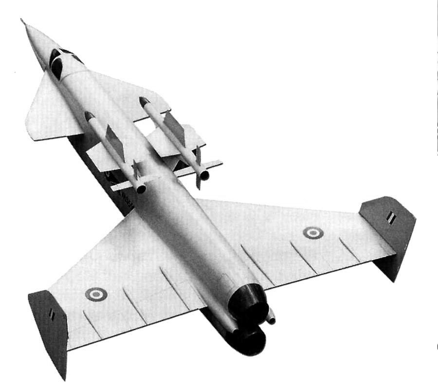 Vickers559. Original image photographed by a British government employee.